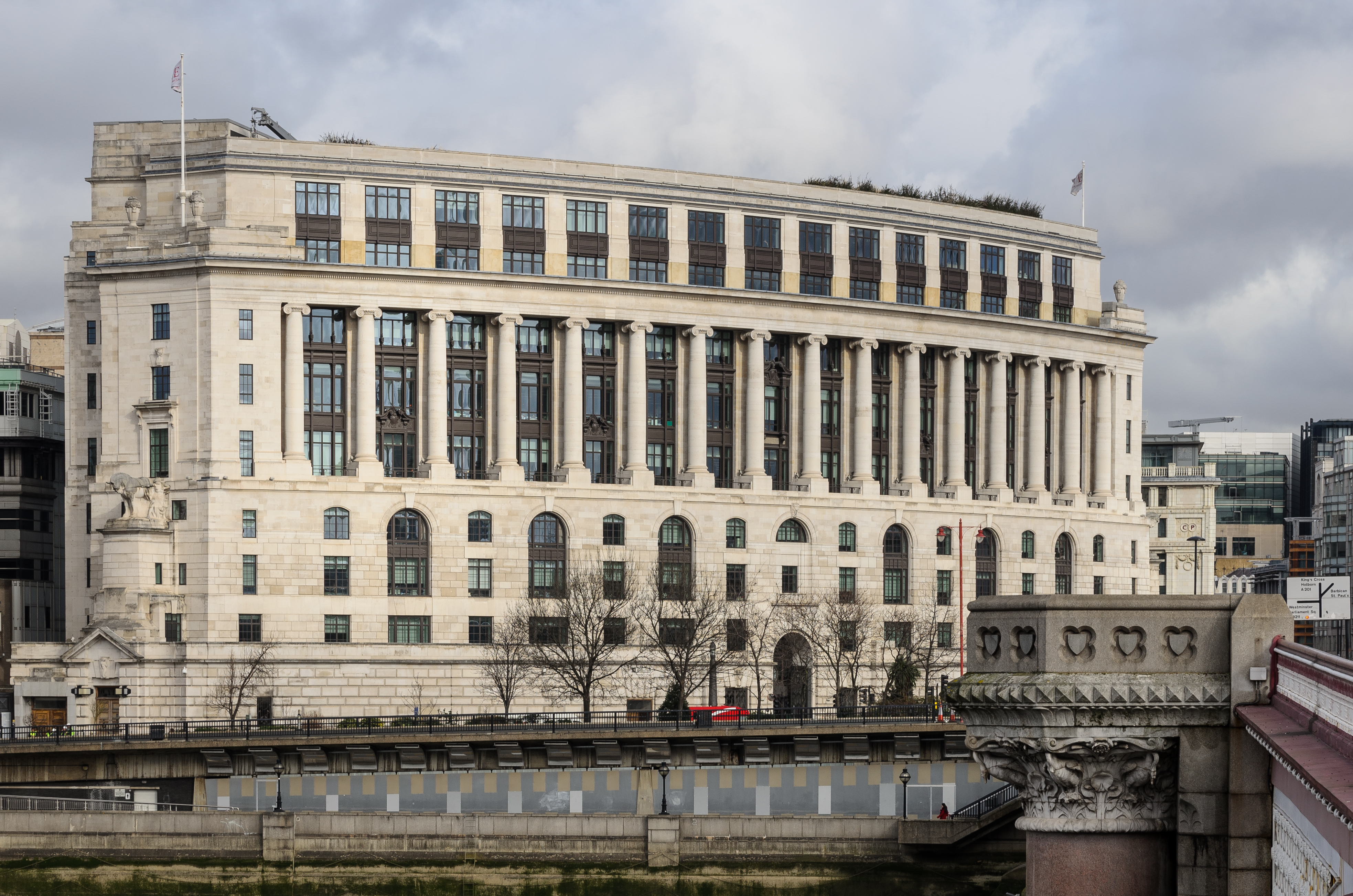 Unilever House, London, seen from Blackfriars Bridge